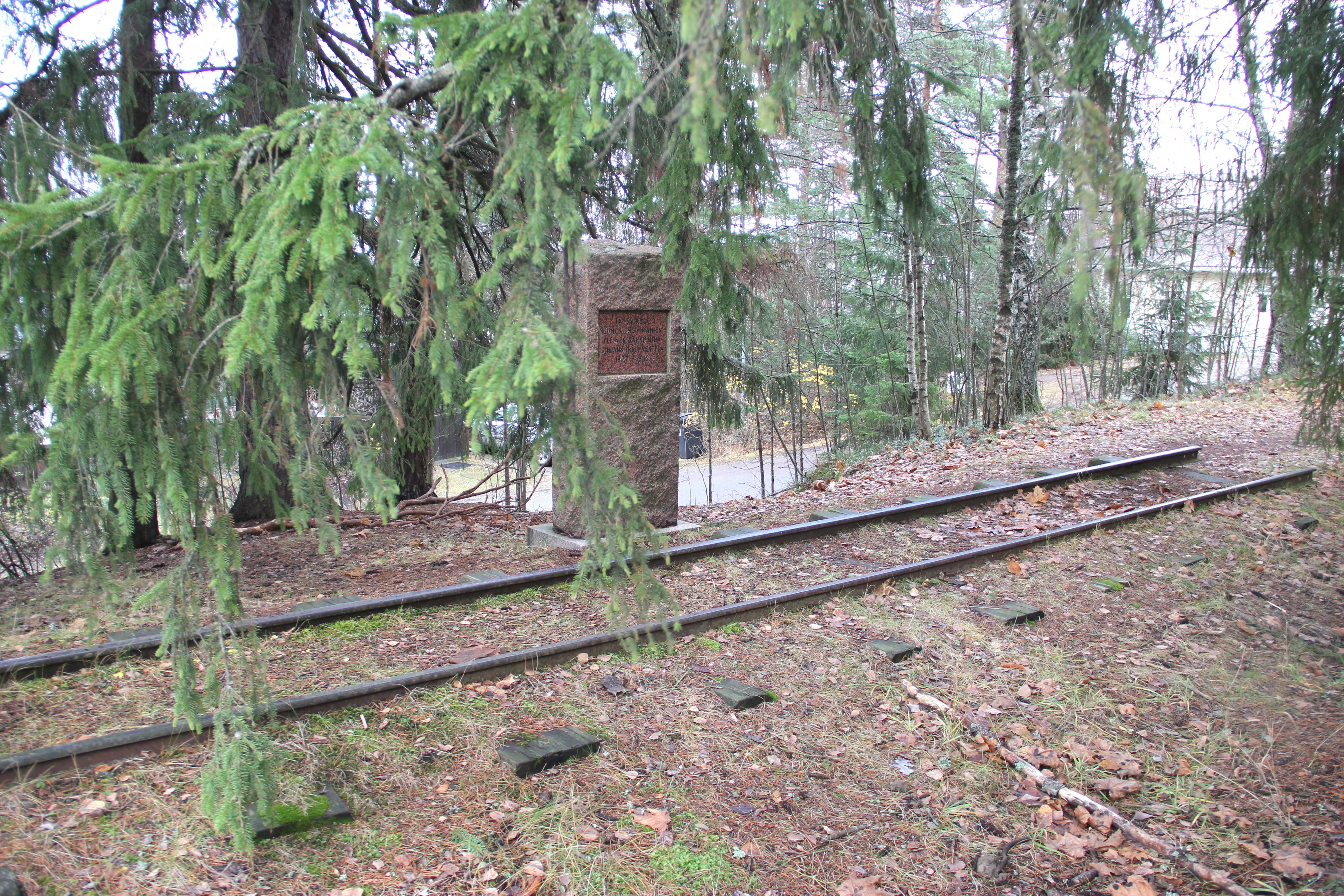 First electric railway in Finland, place in Lohja, Finland